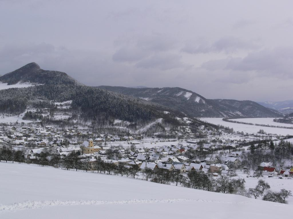 Slovak village Udica in winter